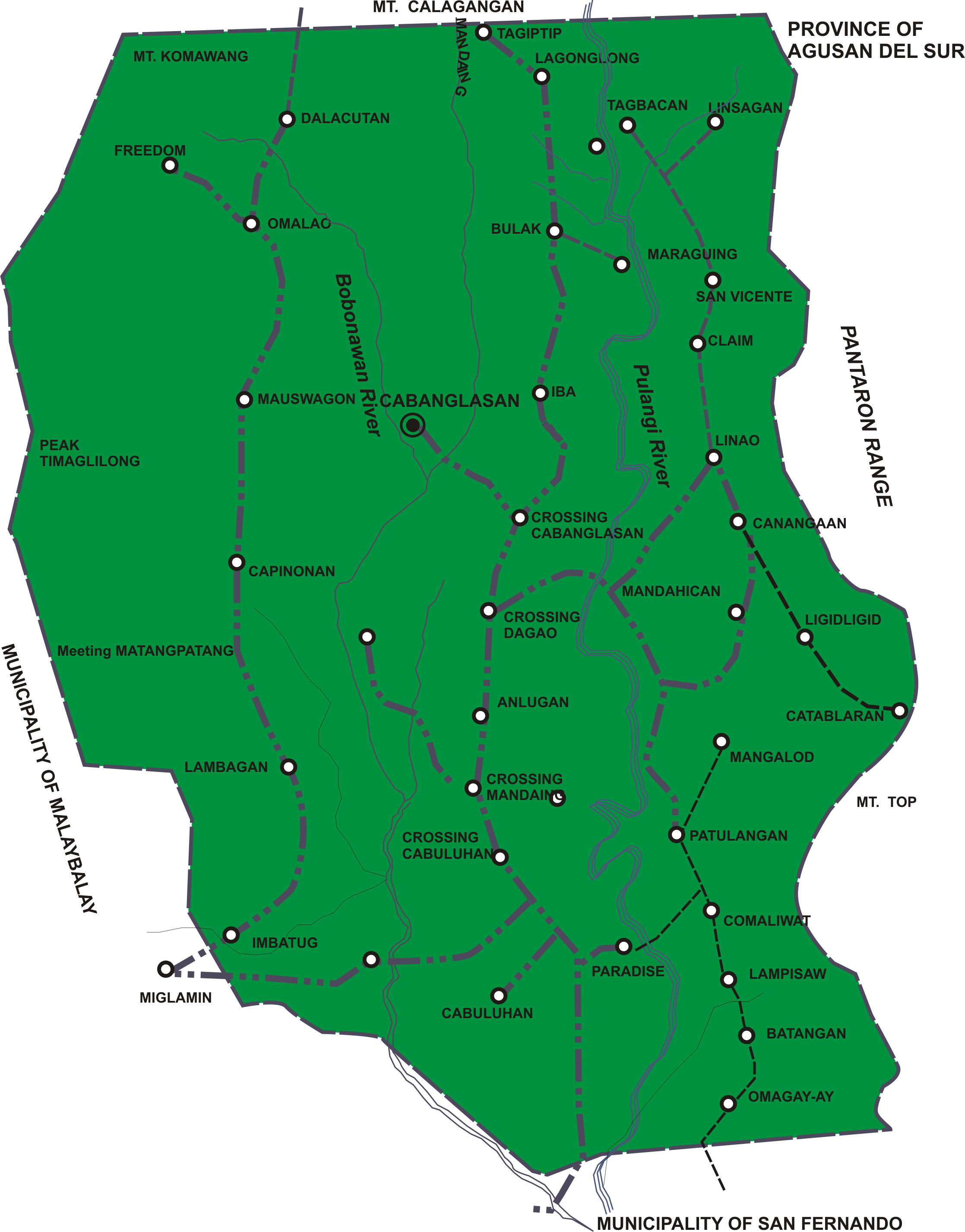 Political map of Cabanglasan, Bukidnon